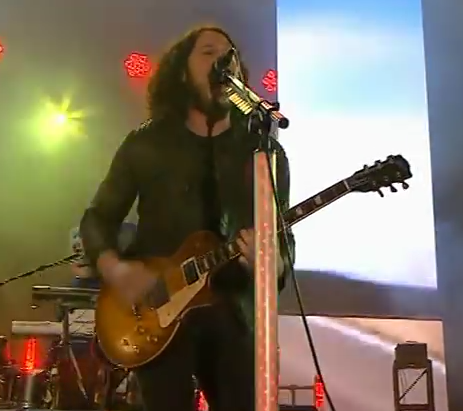 Ray Toro at reading 2014